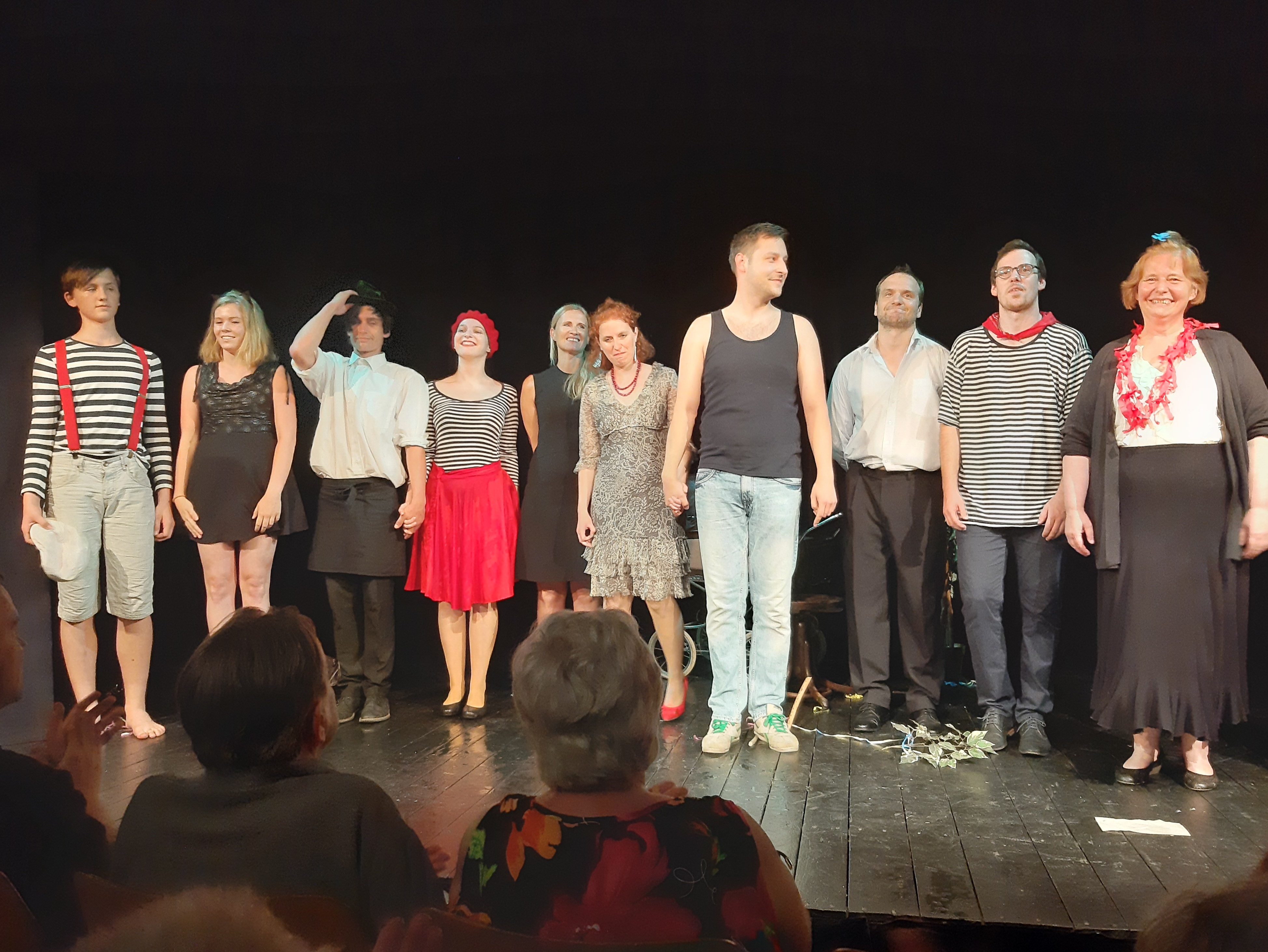 Sumus, Prague amateur theatre company 2019